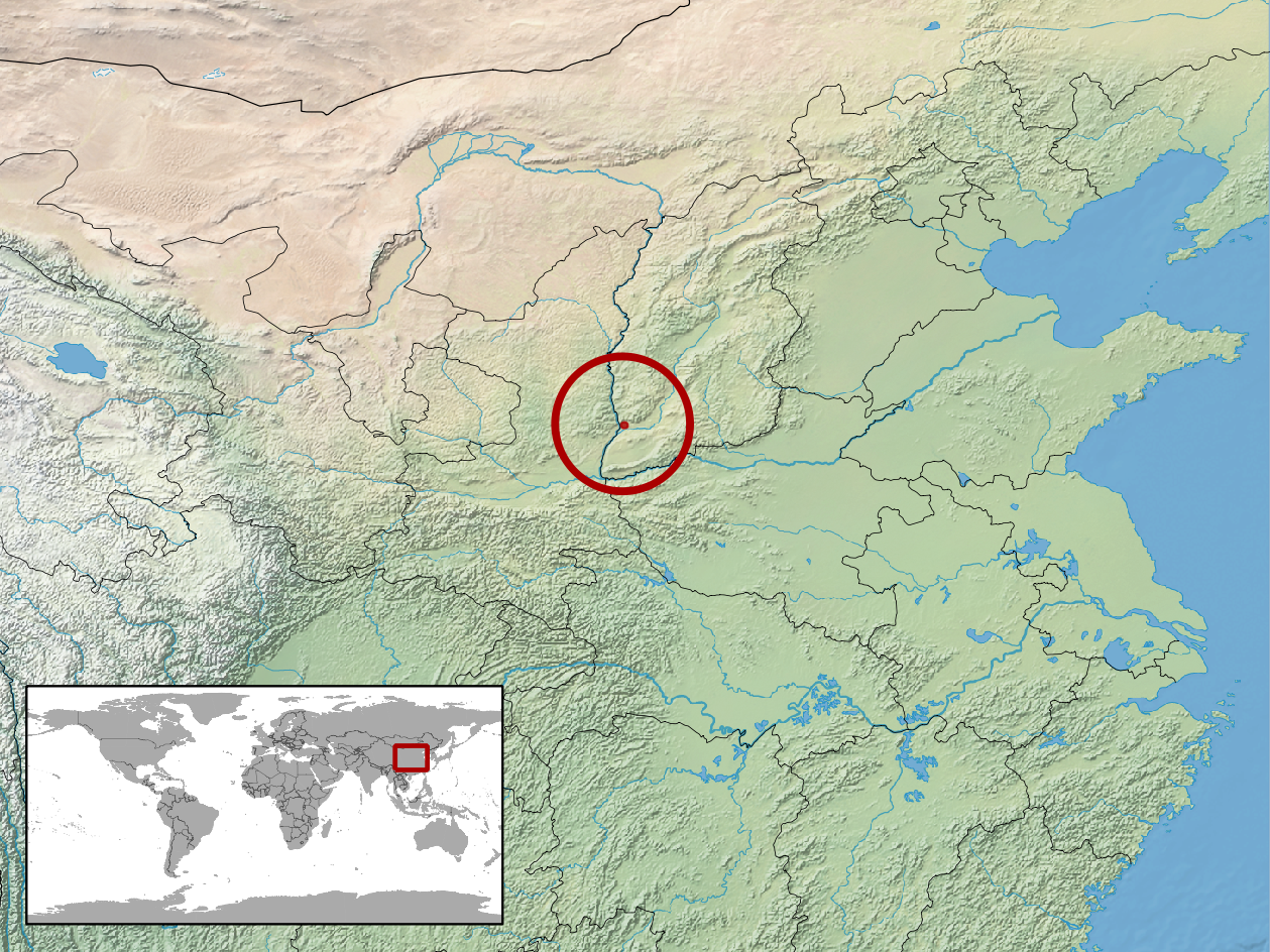 geographic distribution of Gekko auriverrucosus (Native: China (Shanxi))